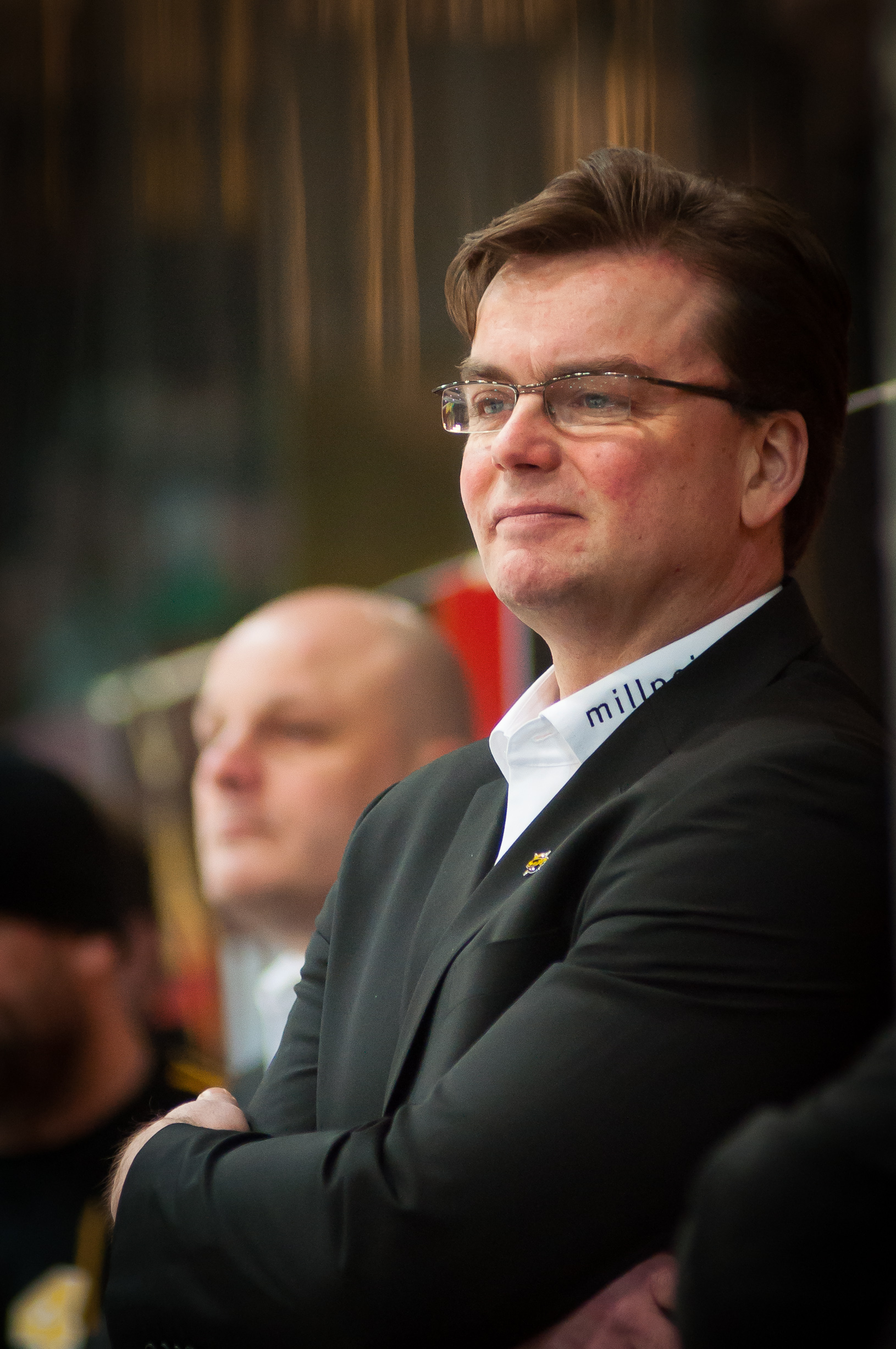 The head coach Pekka Tirkkonen of SaiPa Lappeenranta during a game against Porin Ässät in Lappeenranta, Finland.